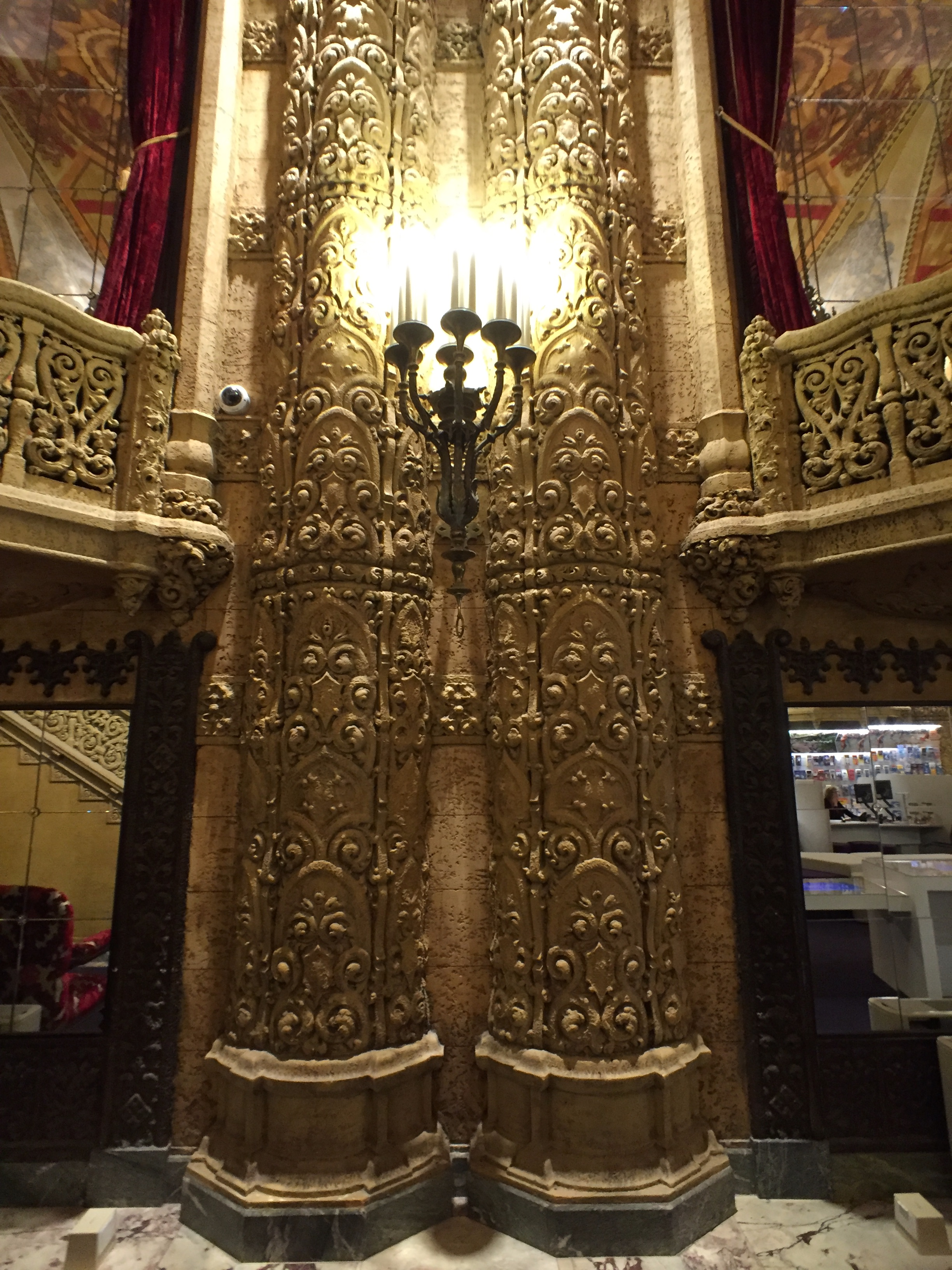 Regent Theatre foyer columns, Brisbane